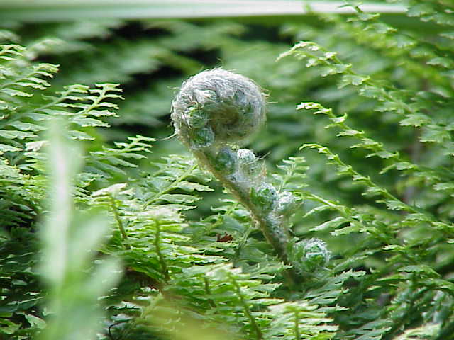 Species: Polystichum setiferum Family: Aspidiaceae Image No. 1